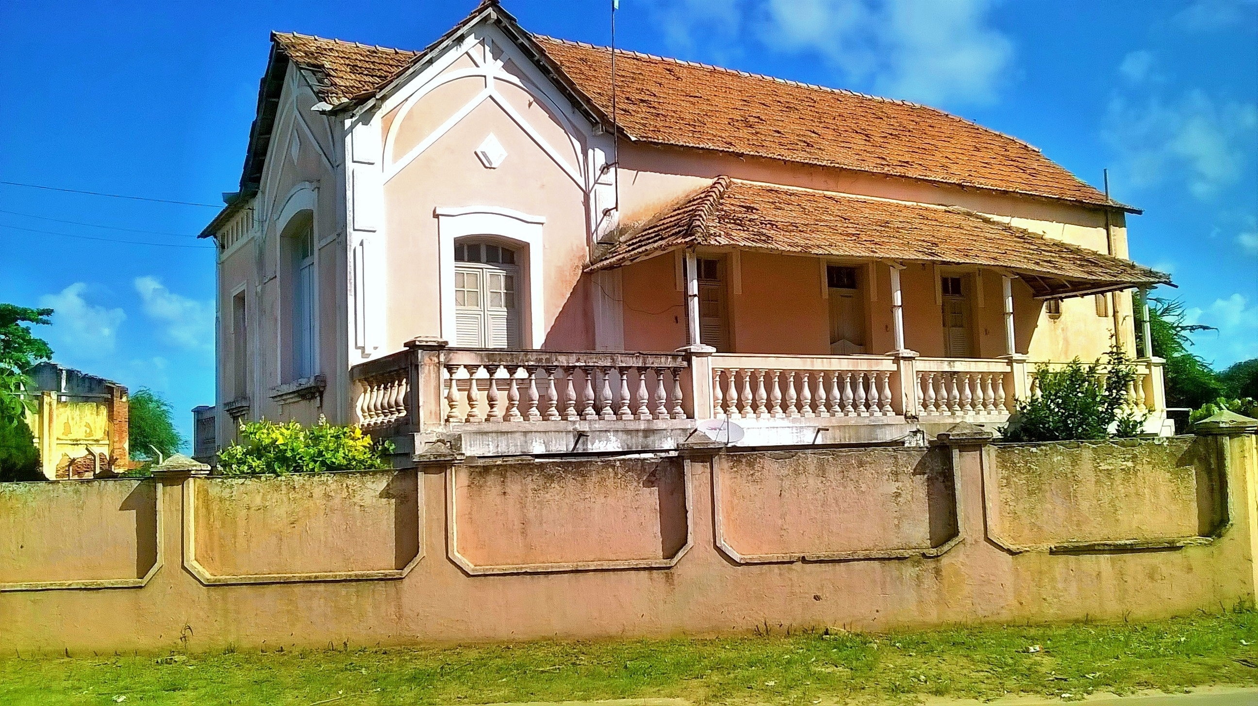 Former residence of the Director General of the Railway Station, it is currently the Camocinense Academy of Sciences, Arts and Letters.